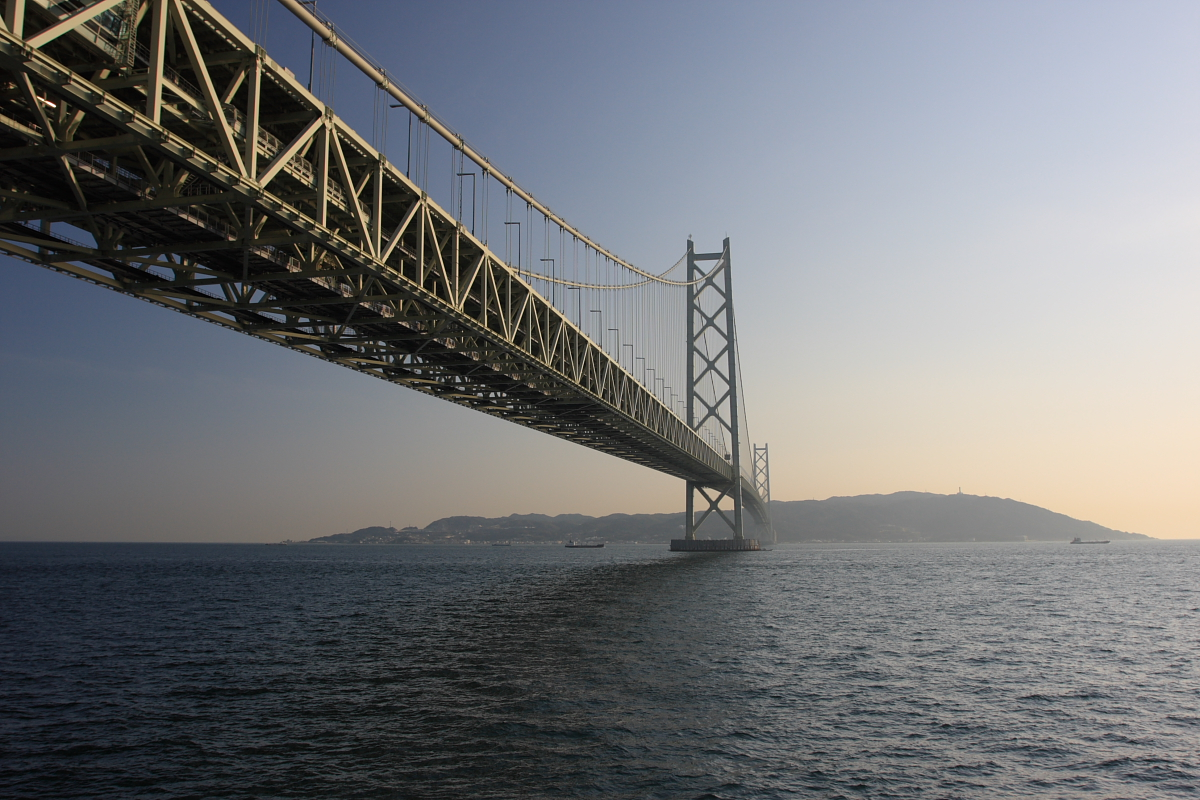 Akashi-Kaikyō Bridge